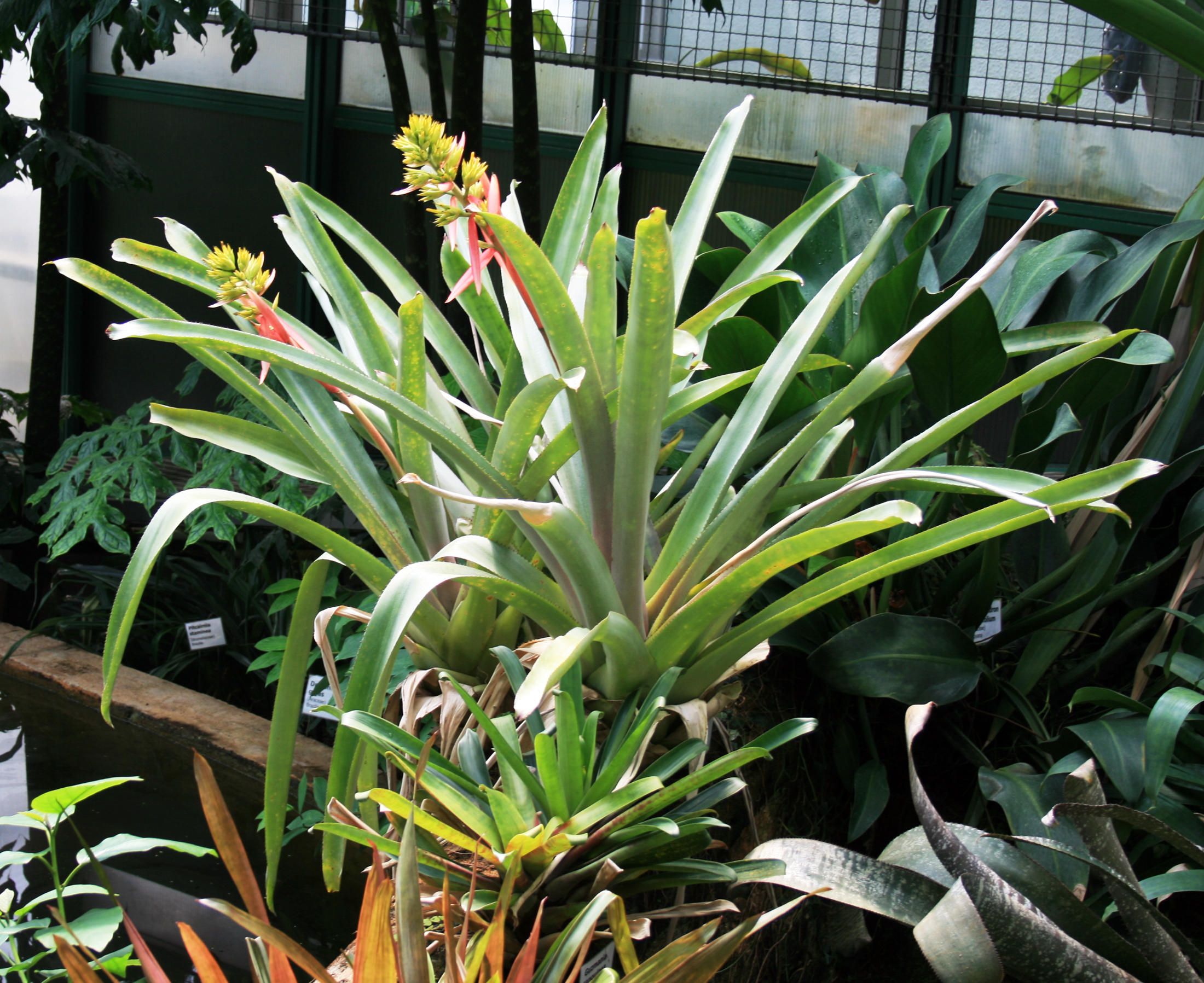 Plant Aechmea aquilega in Botanical Garden Liberec, Czech Republic